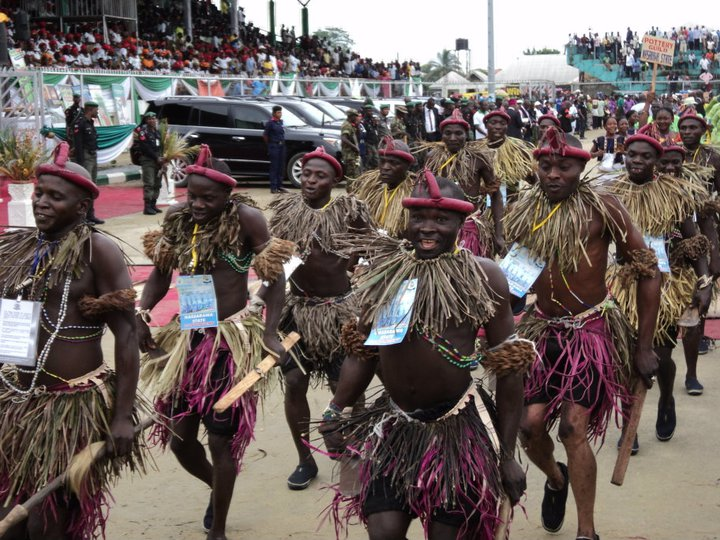 Pictures from the closing ceremony of National Festival of Arts and Culture (NAFEST) 2010 in Uyo, Akwa Ibom state Nigeria. This is an image of Cultural Fashion or Adornment from Nigeria